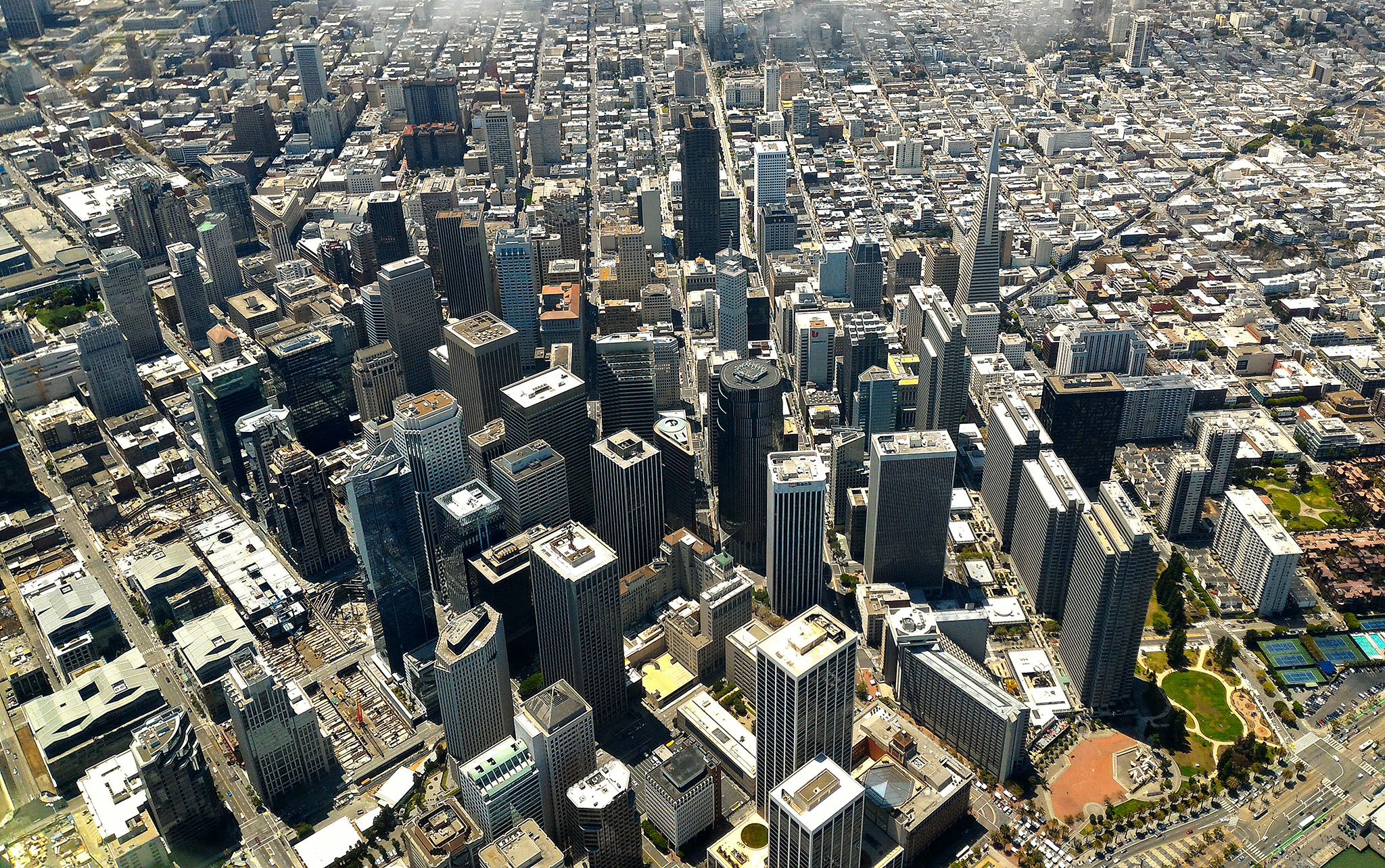 Aerial photo of downtown San Francisco showing various skyscrapers in the city including the Transamerica Pyramid, taken in July 2015.